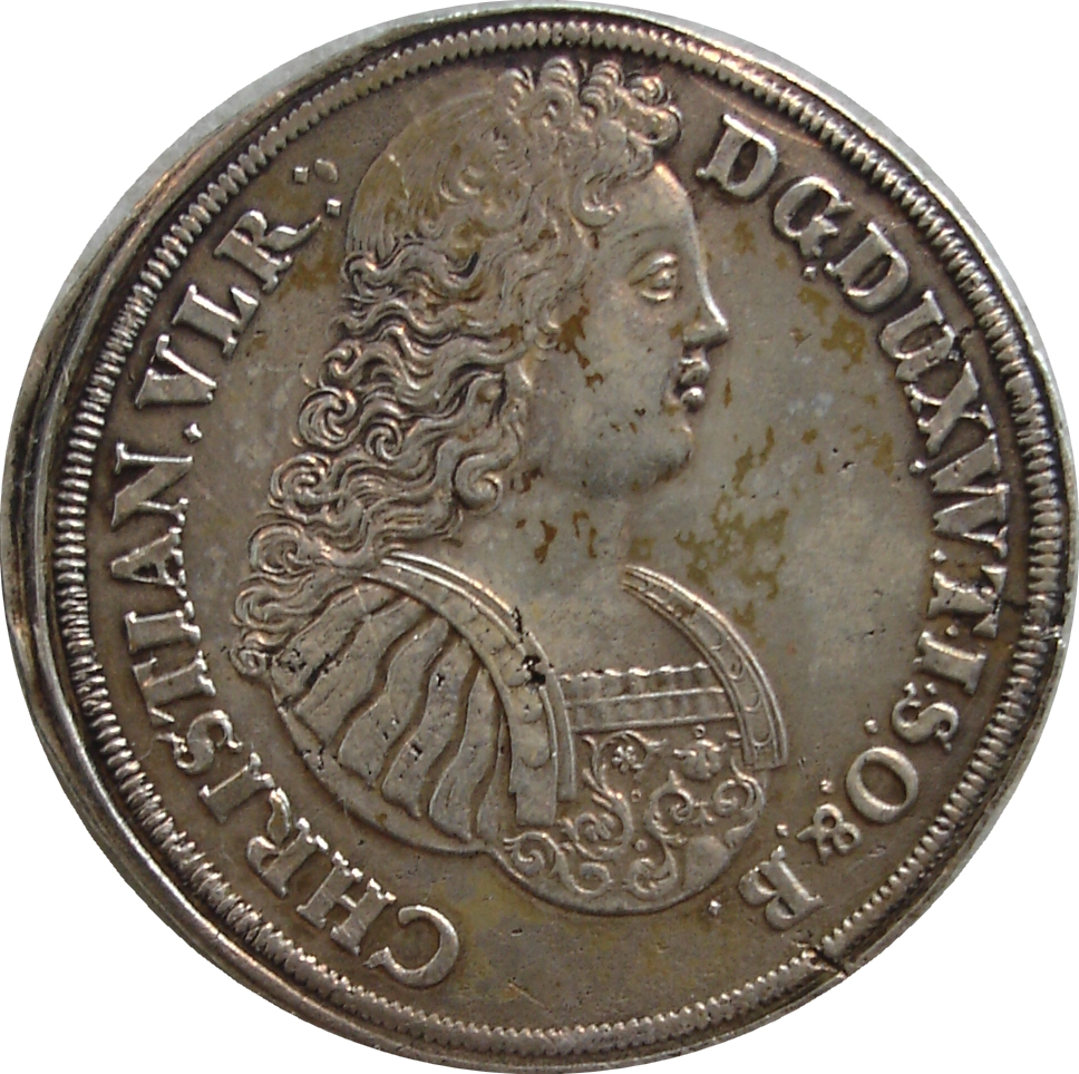 Thaler of Christian Ulrich, from 1681, obverse, minted in Oleśnica, Lower Silesia, from Museum of Chorzów in Poland collection.